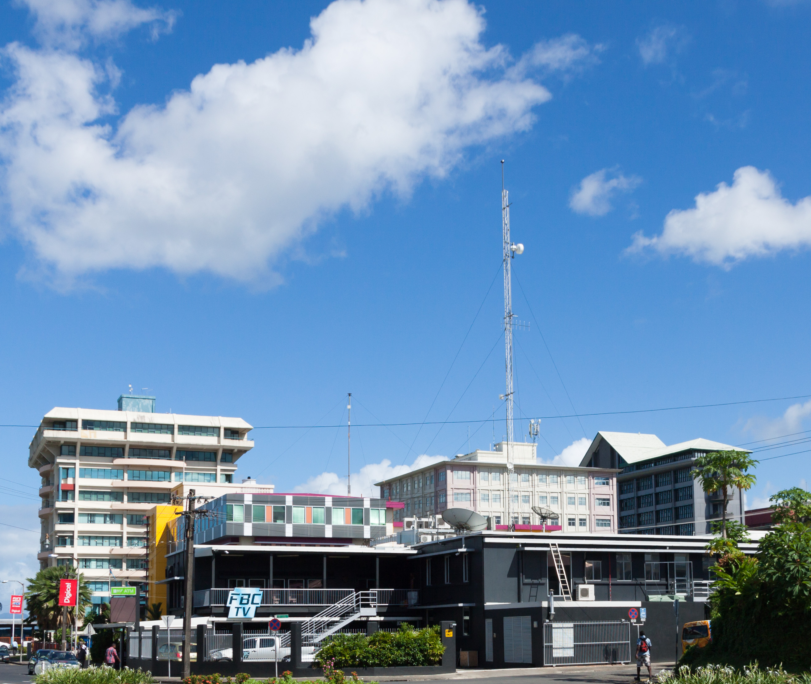 FBC (Suva)